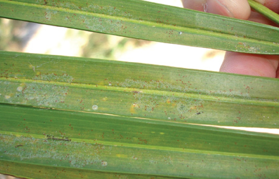 Raoiella Indica - Red Palm Mite Damage To Palm Leaf